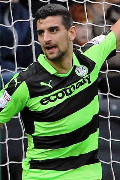 Notts County v Forest Green Rovers. English League Football - Sky BET League Two. Meadow Lane, Nottingham, England. 7th October 2017. . Forest Green Rovers' Omar Bugiel (11) scores to make it 1-0.